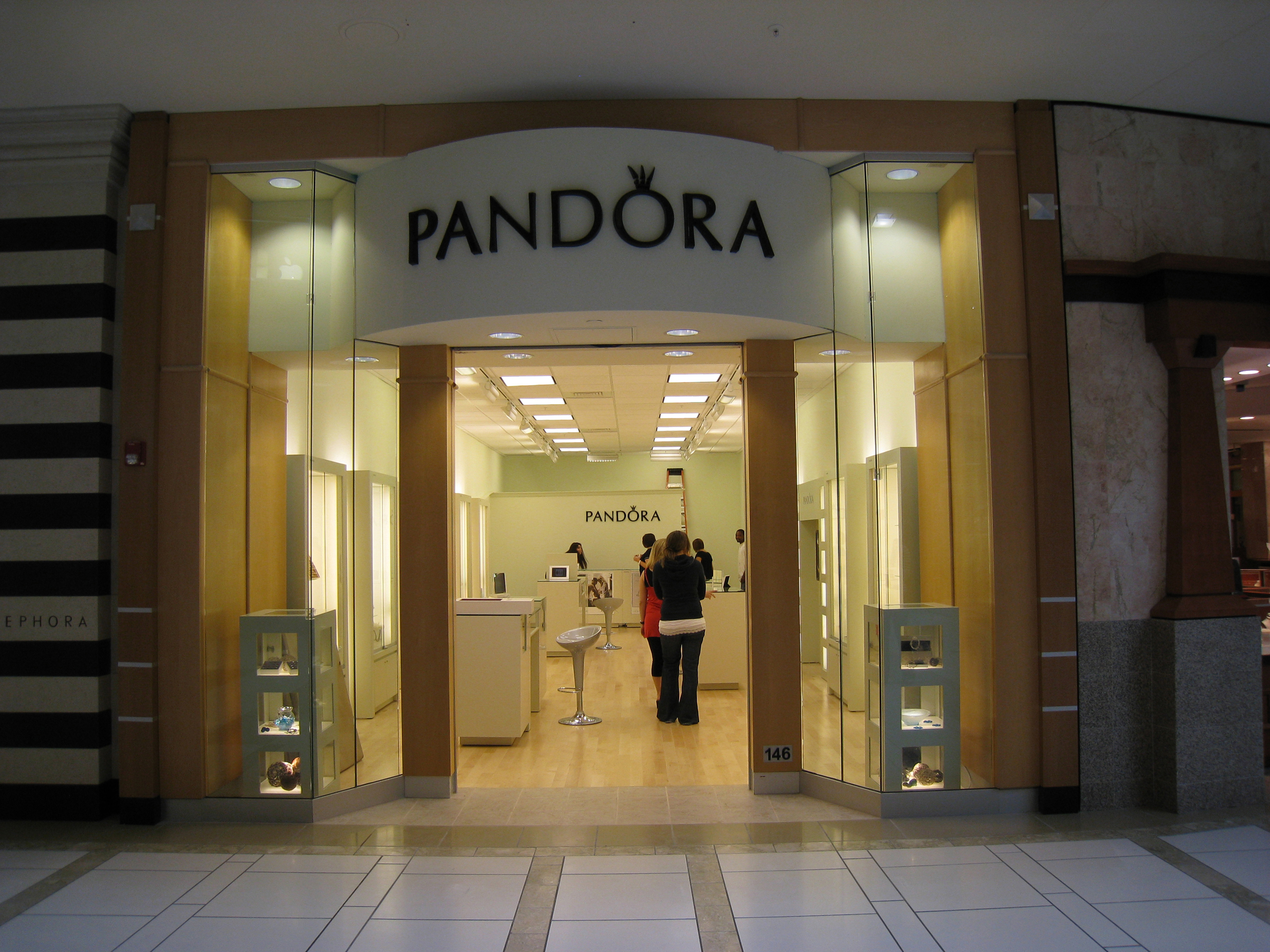 PANDORA Store in Tampa, FL